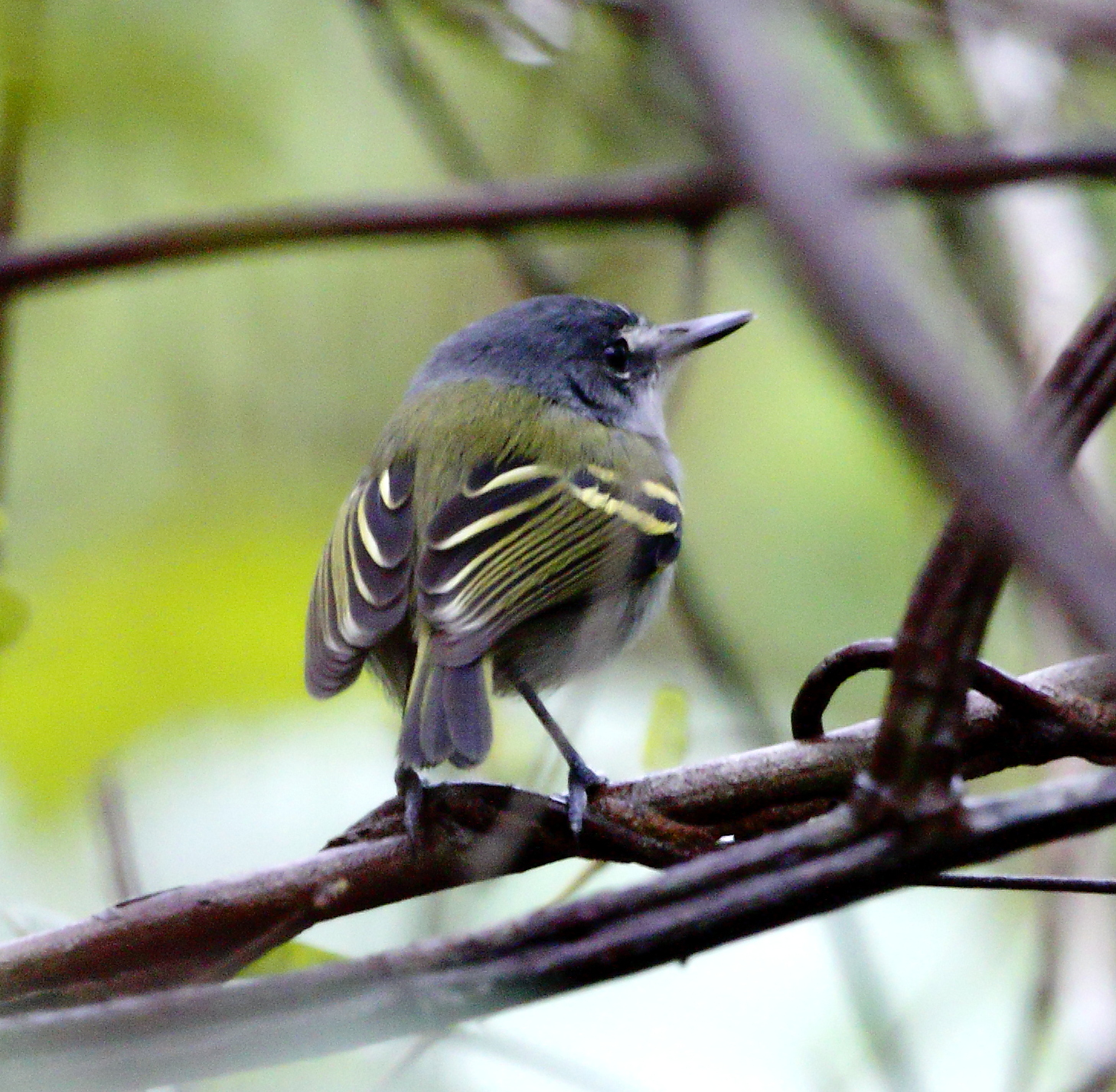 Slaty-headed tody-tyrant at Carajás National Forest - Pará - Brazil